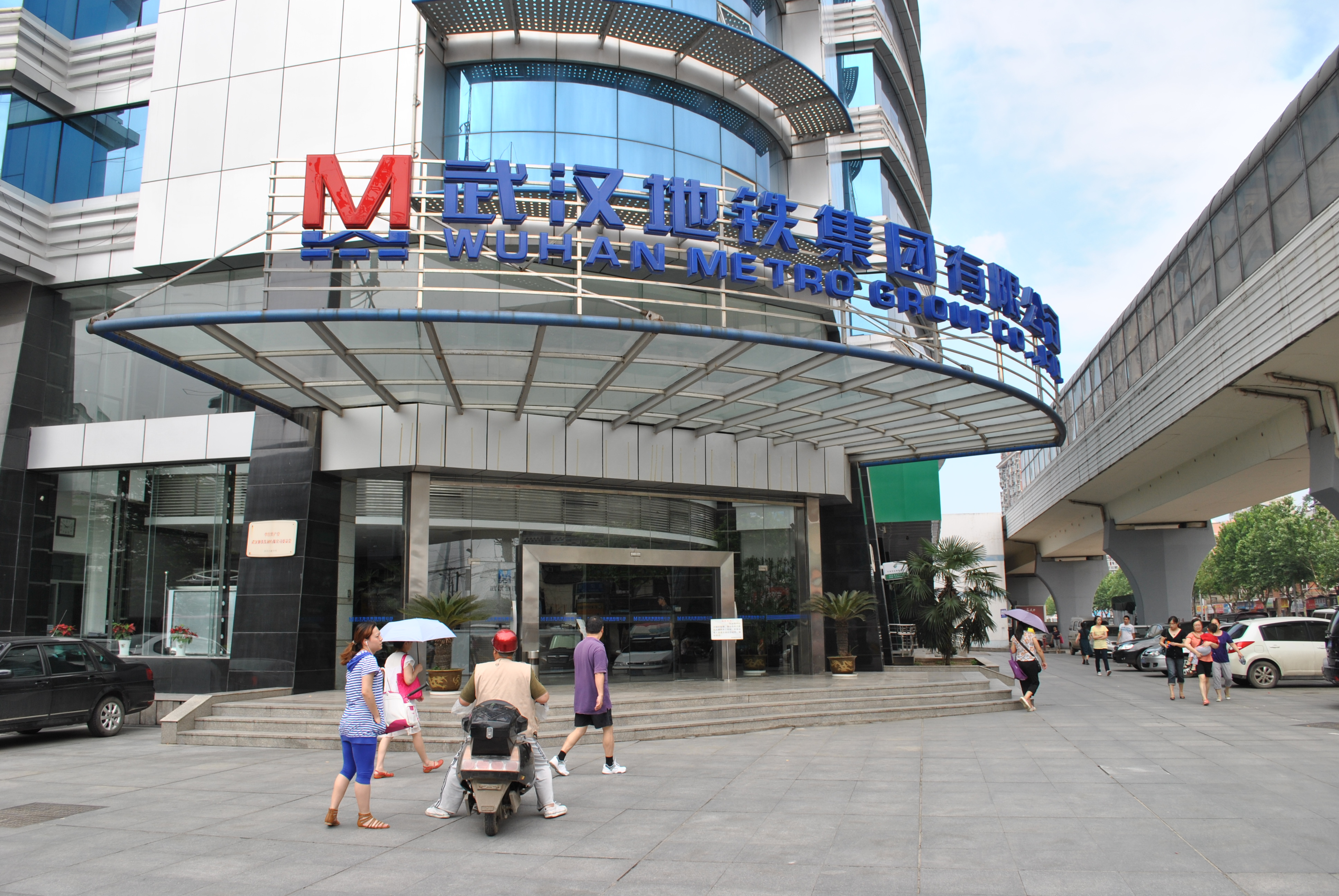 Wuhan Metro headquarter